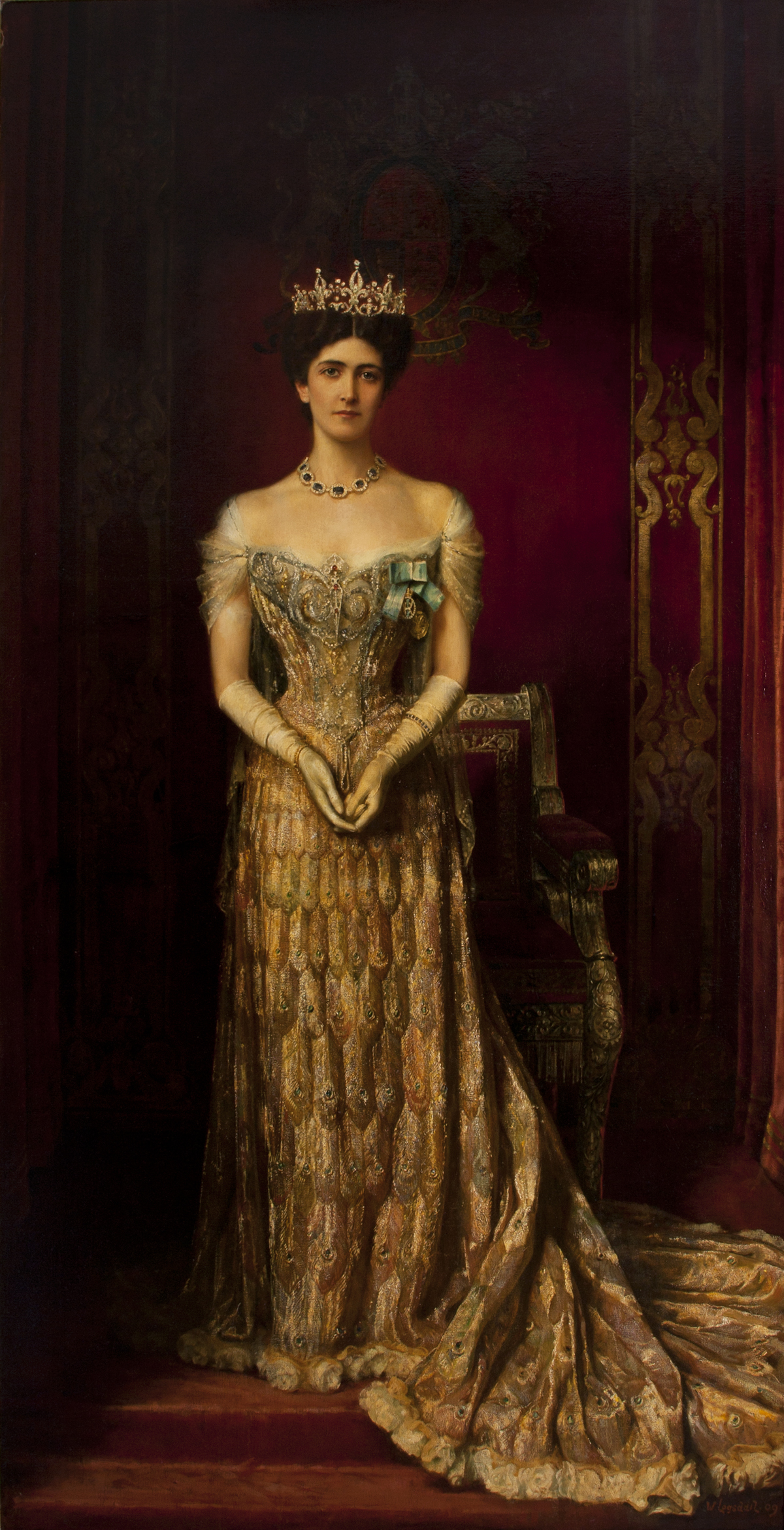 Lady Curzon wearing the "Peacock Dress" created for her in 1903 by the House of Worth (designed by Charles Frederick's son, Jean-Philippe Worth). This portrait completed posthumously in 1909 by William Logsdail following Lady Curzon's death in 1906.